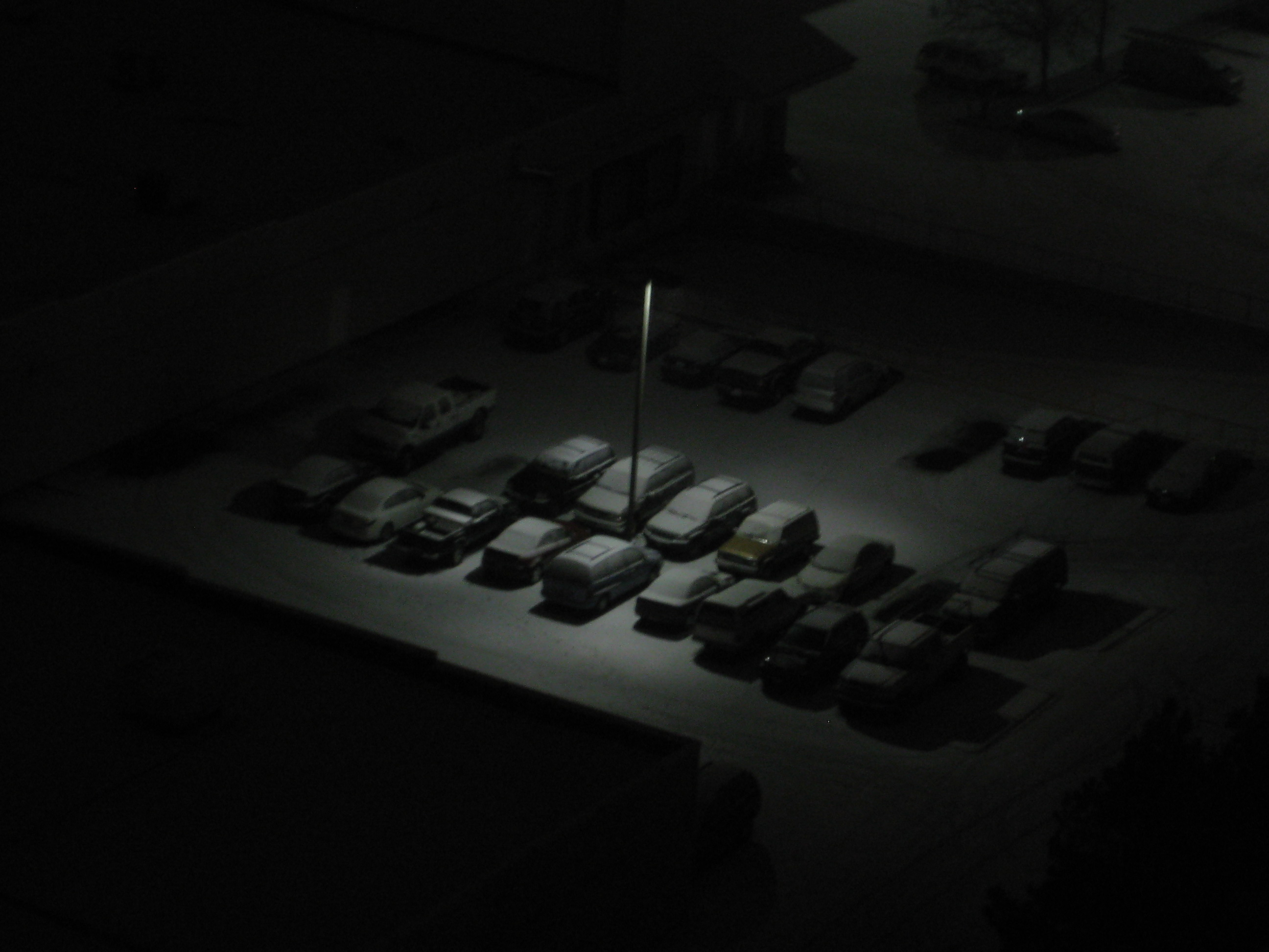 A photo of a light in a dark snowy night